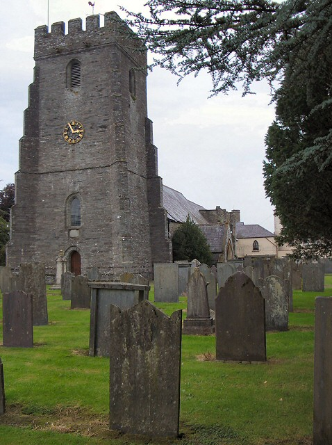 St Mary's Church